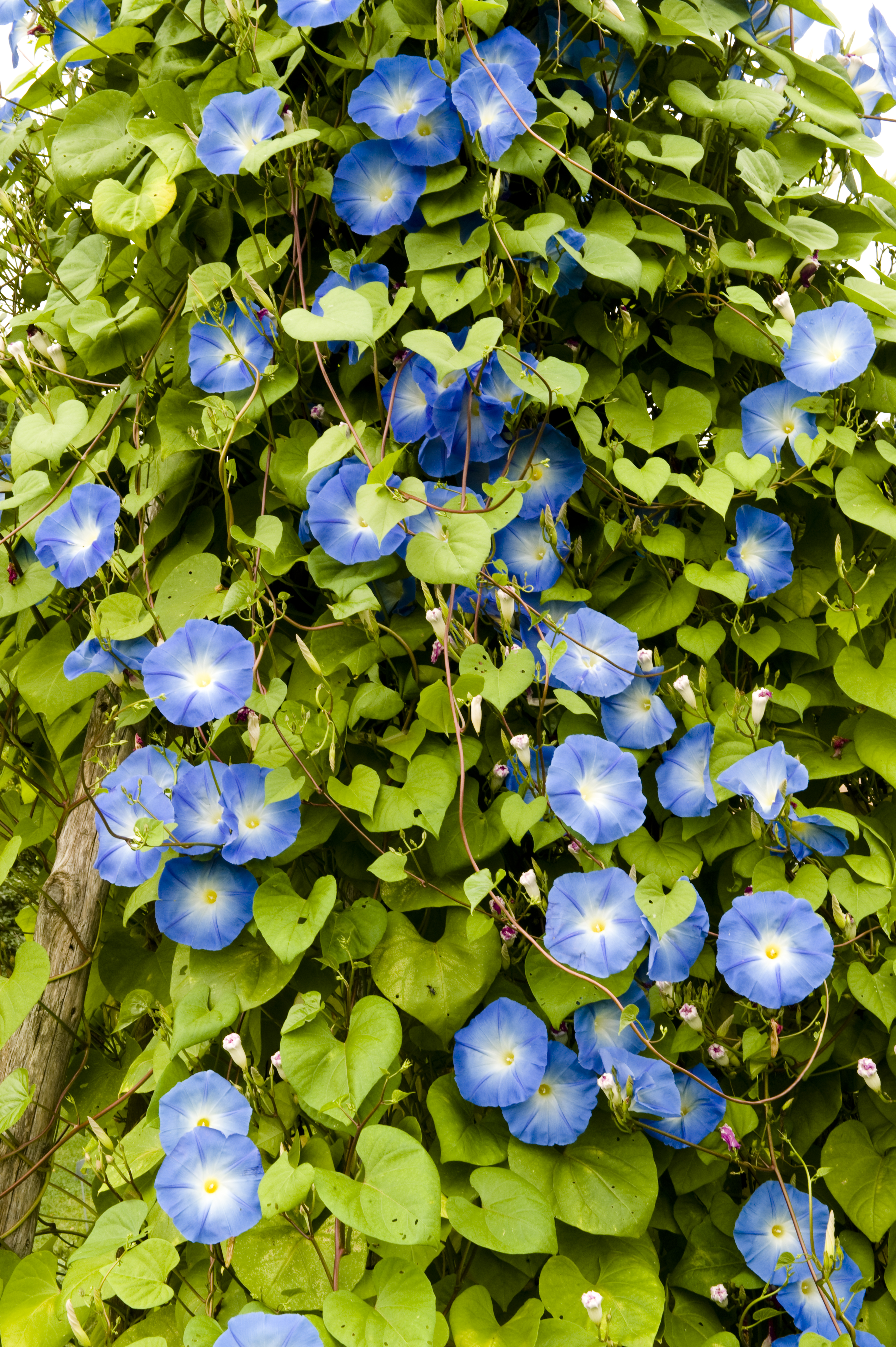 Cluster of flowers halfway up the Morning Glory Tower